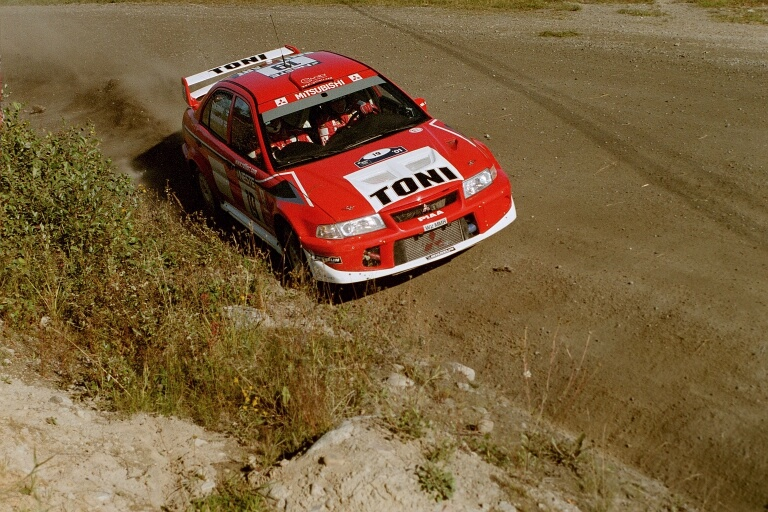 Toni Gardemeister driving his Mitsubishi Carisma GT (class A8) at the ninth round of 2001 World Rally Championship - Rally Finland.